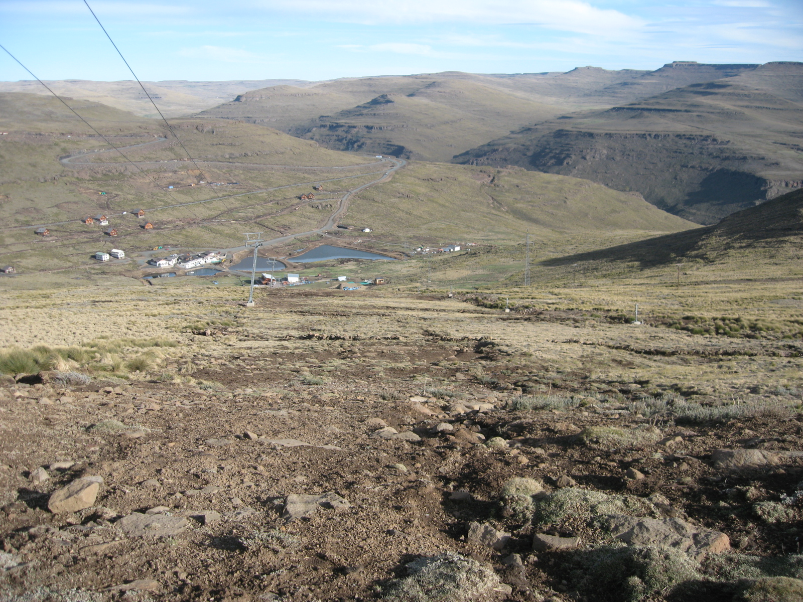 Afriski in Summer, bring on the winter!